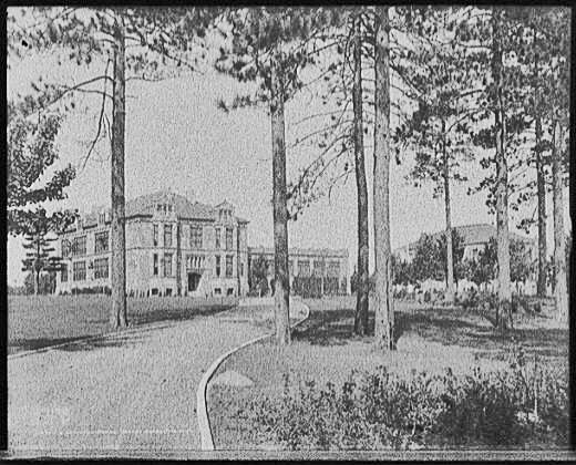 Northern Normal School, Marquette, Mich